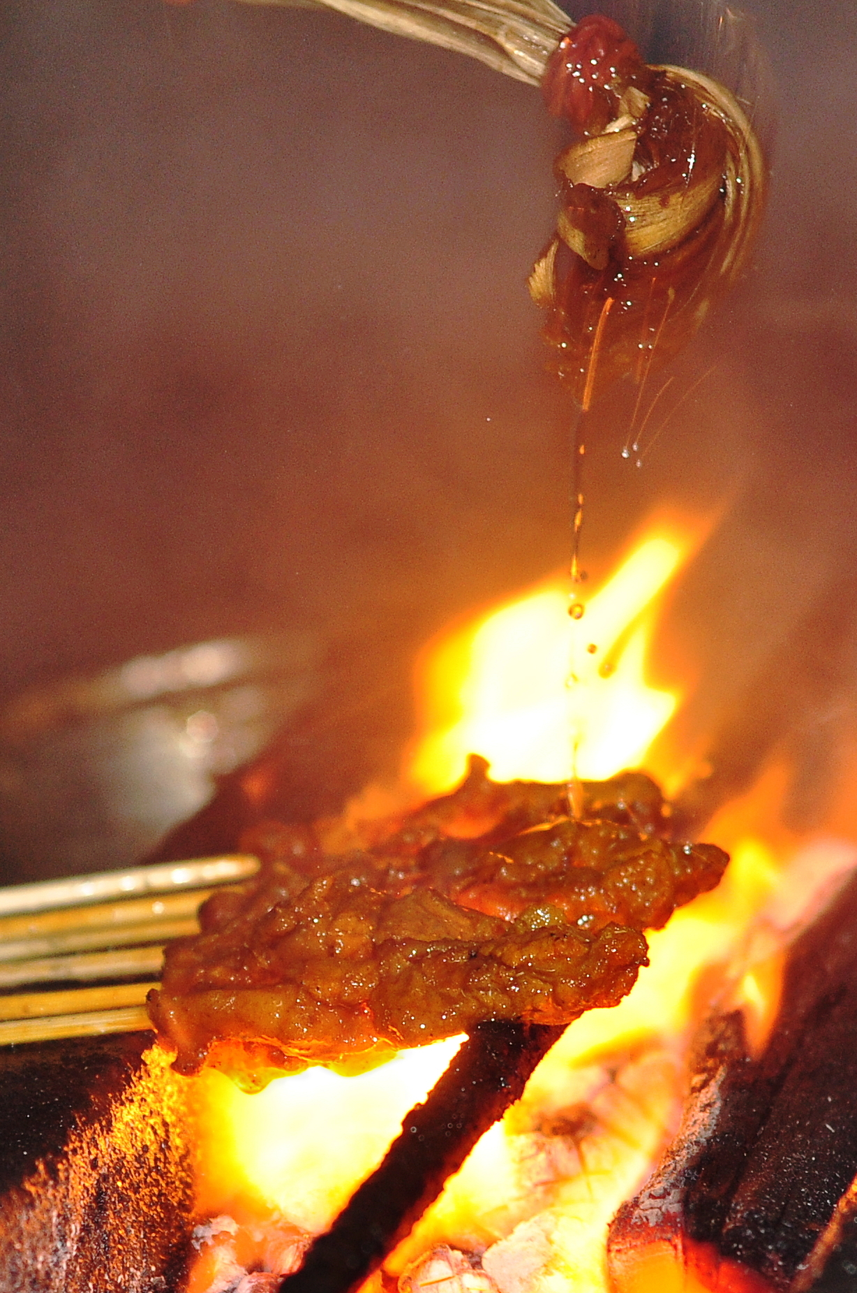 Sauce dripping on some satay from brush made out of plant stems (or similar... reeds?) tied together. Photo taken in Tanjung Aru beach, in the hawker food court. Sabah (Borneo), Malaysia. Malaysian cuisine, culture. This is a crop of file "Sauce Drip on Satay".